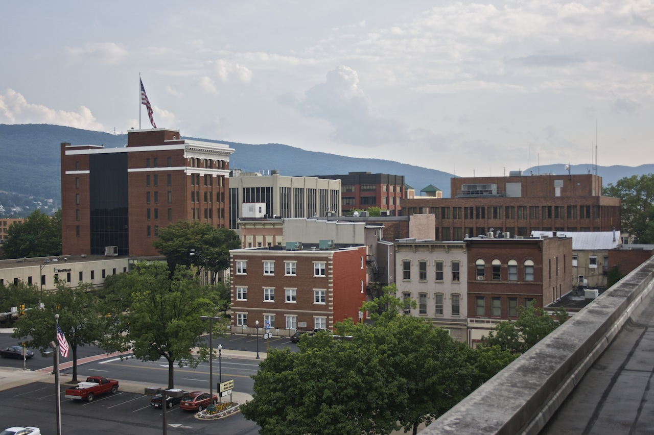 Downtown Williamsport. Taken from the roof of the Scottish Rite Auditorium.